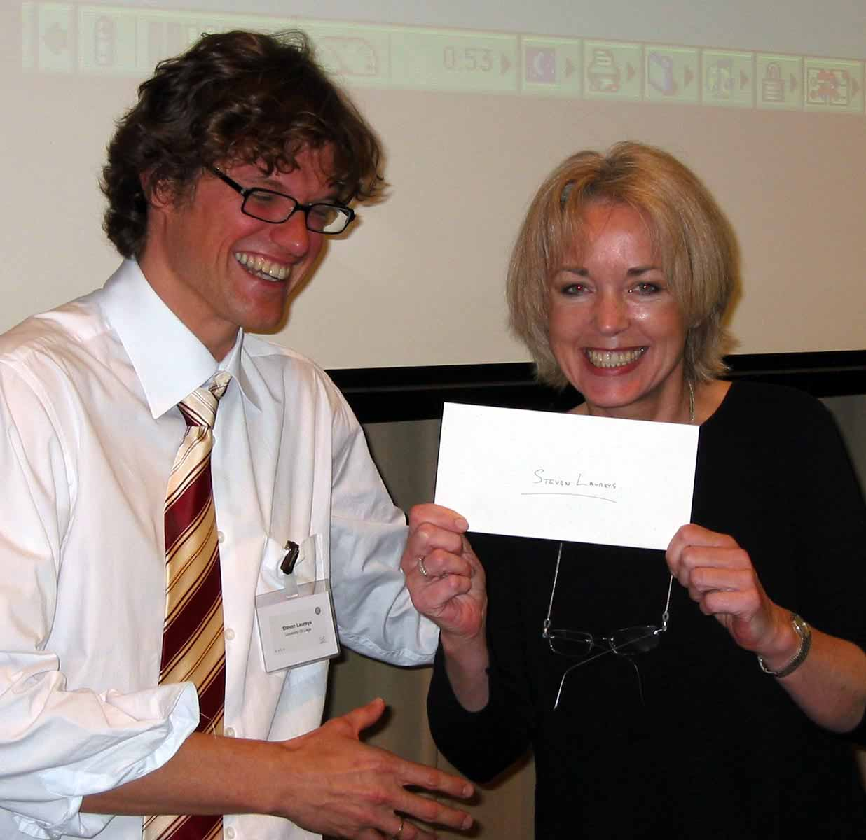 A picture of Steven Laureys receiving the 2004 William James Prize.